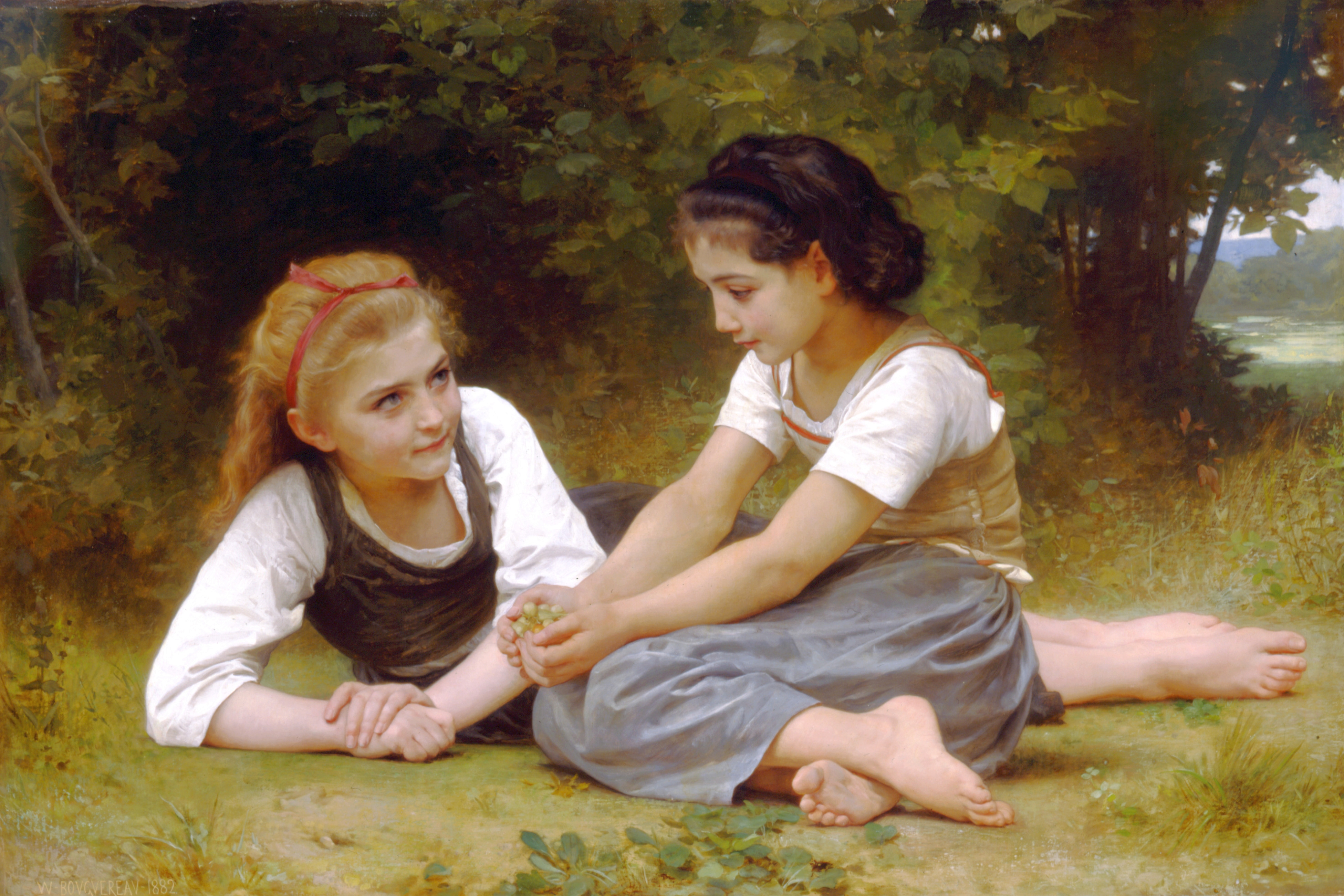 Les noisettes aka The nut gatherers